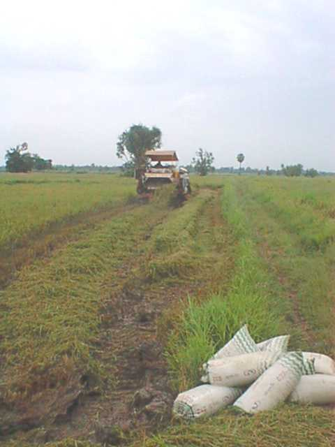 Rice Farm in Ban Dongphayom, taken by Kevin Borland, July, 2000.